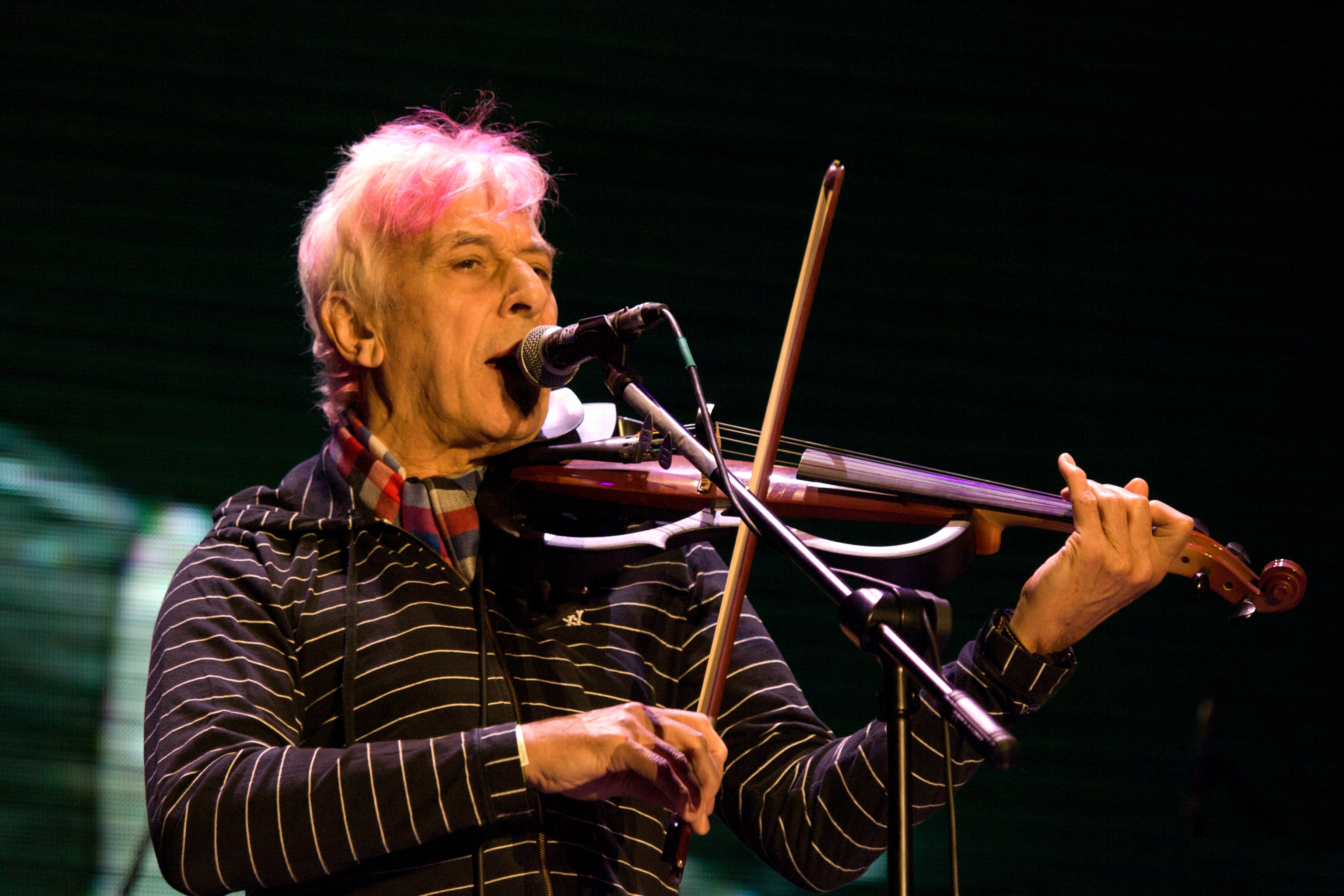 John Cale at Urban SimpleLife Festical (2010).